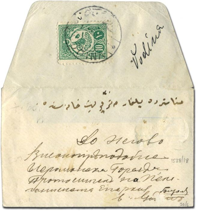 Letter to archimandrite Gorazd